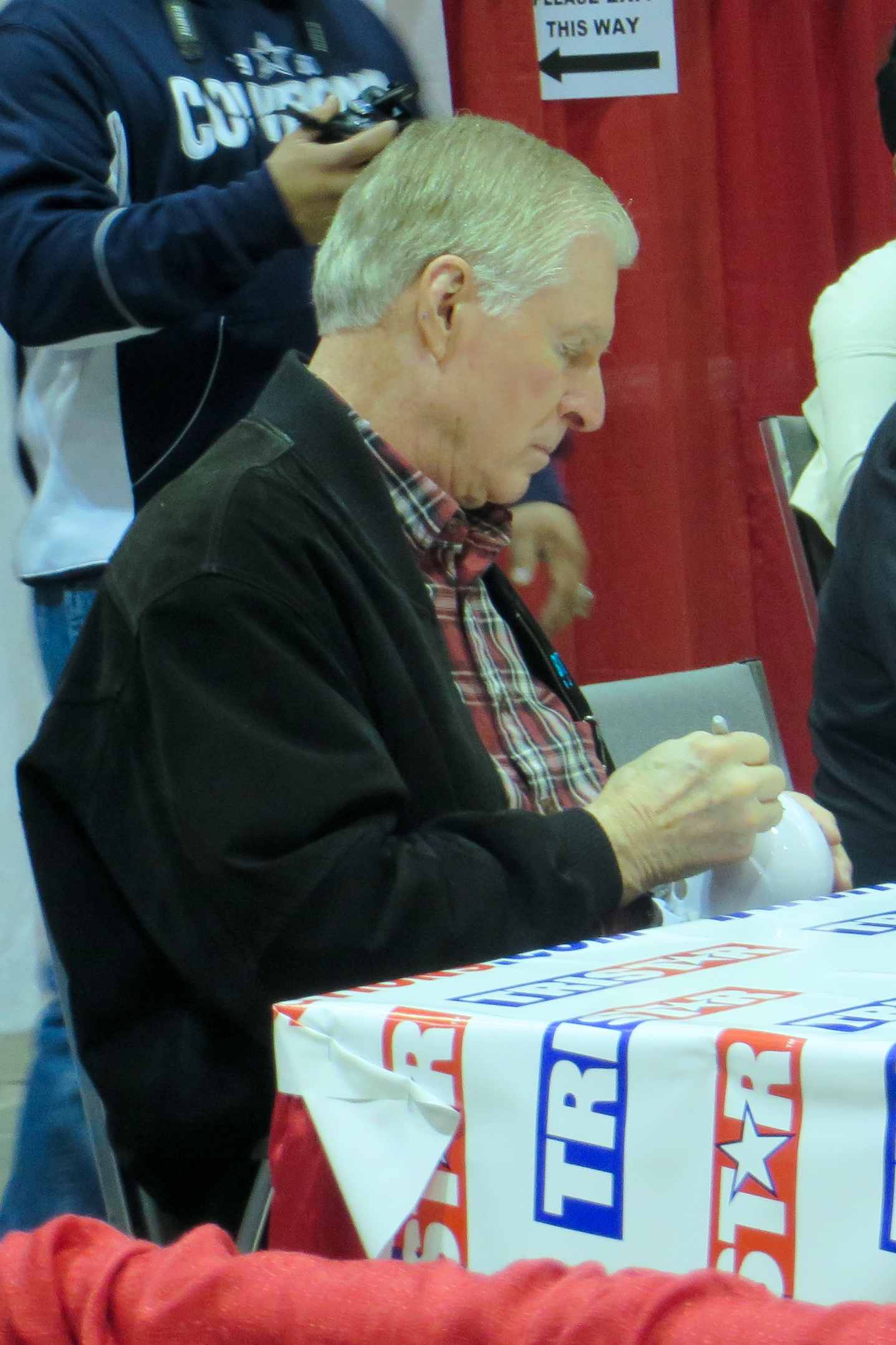 Bob Lilly signs autographs at a Houston sports collectors show sponsored by Tristar Productions.